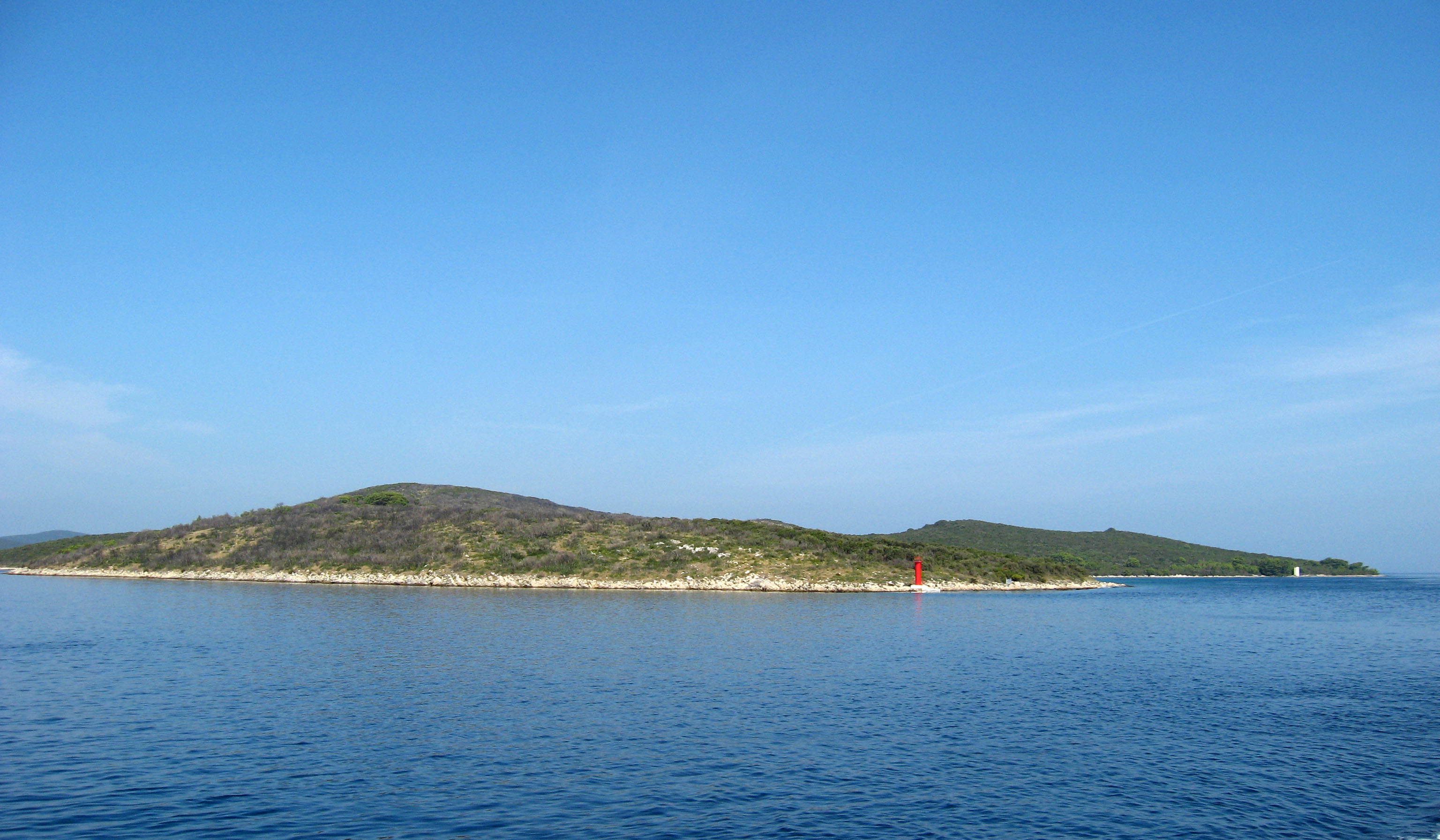 Sestrunj island (Croatia)